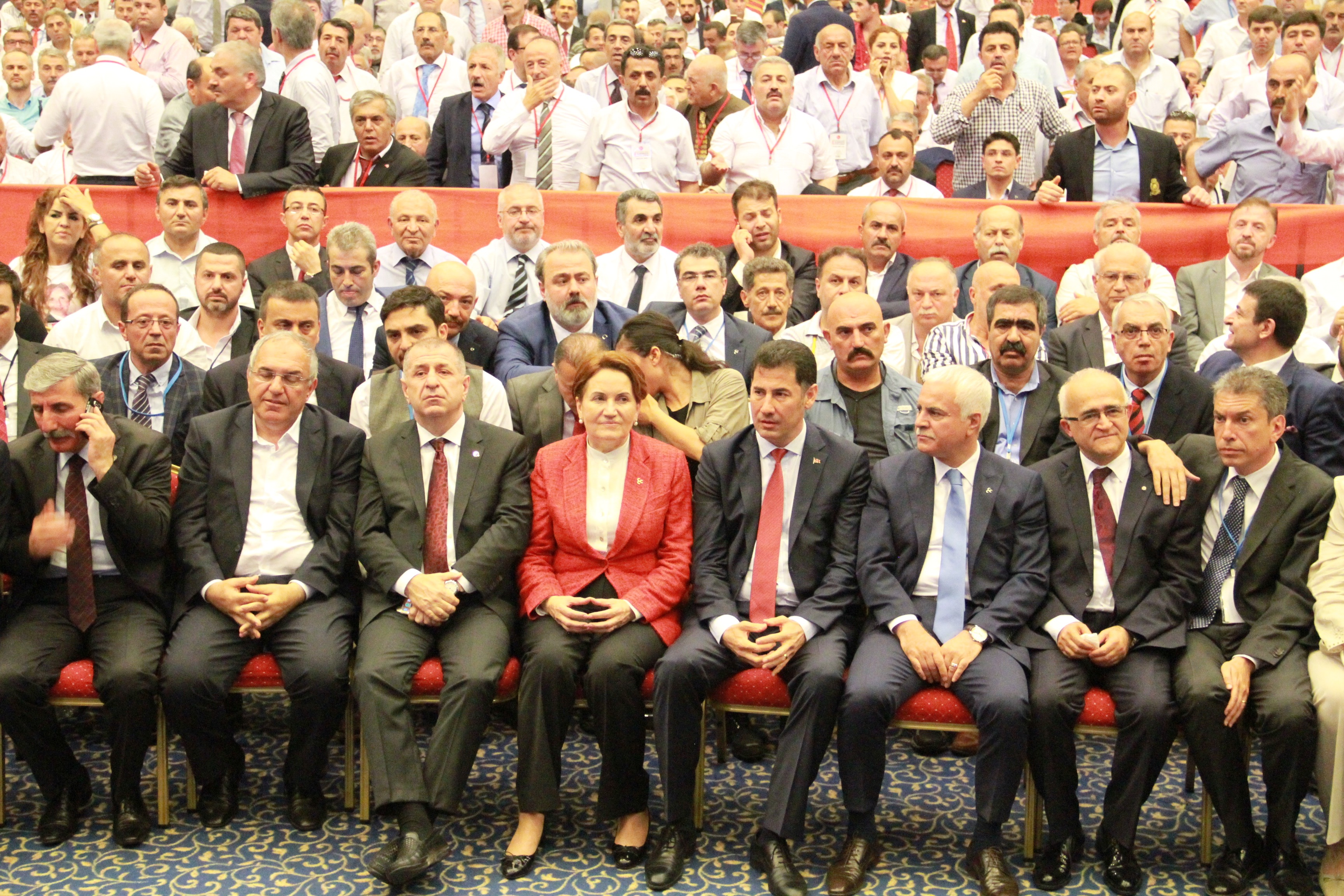 Nationalist Movement Party Extraordinary Congress 19 June 2016